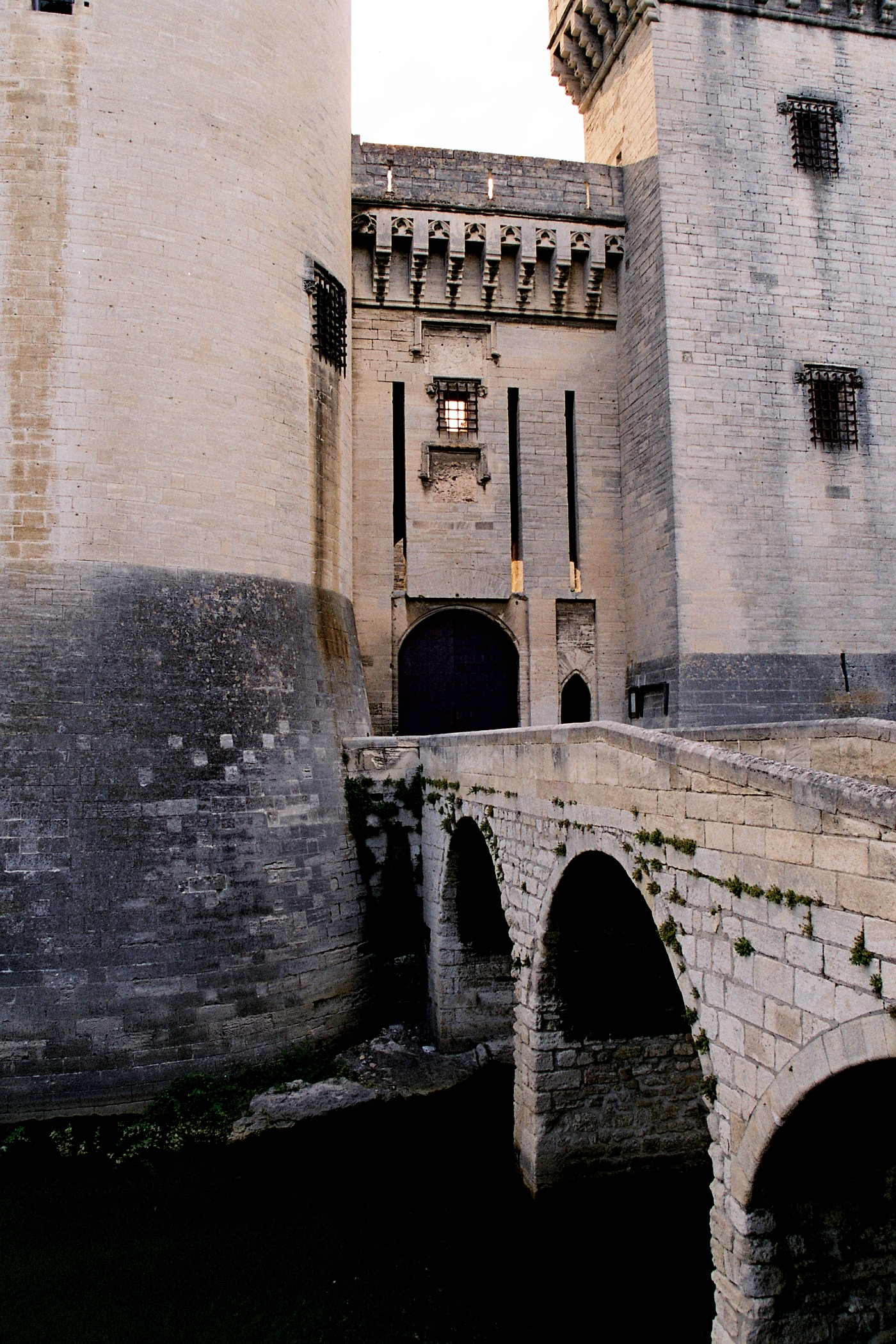 Castle of the King Rene, Tarascon.